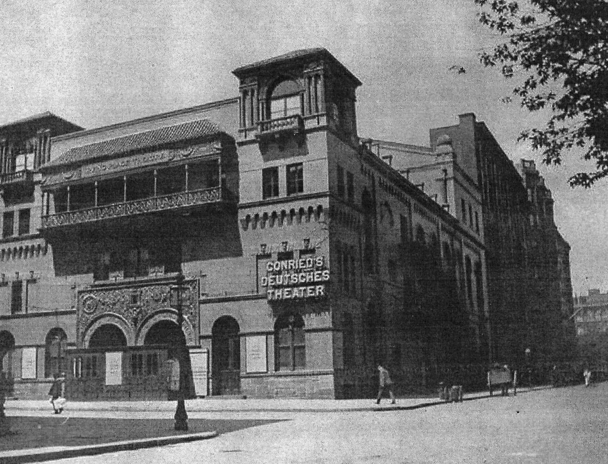 Conried's German Theatre (Irving Place Theatre) between 1893 and 1903. Heinrich Conried (1855–1909) took over the management of the Metropolitan Opera House in 1903 until 1908 and died 1909.